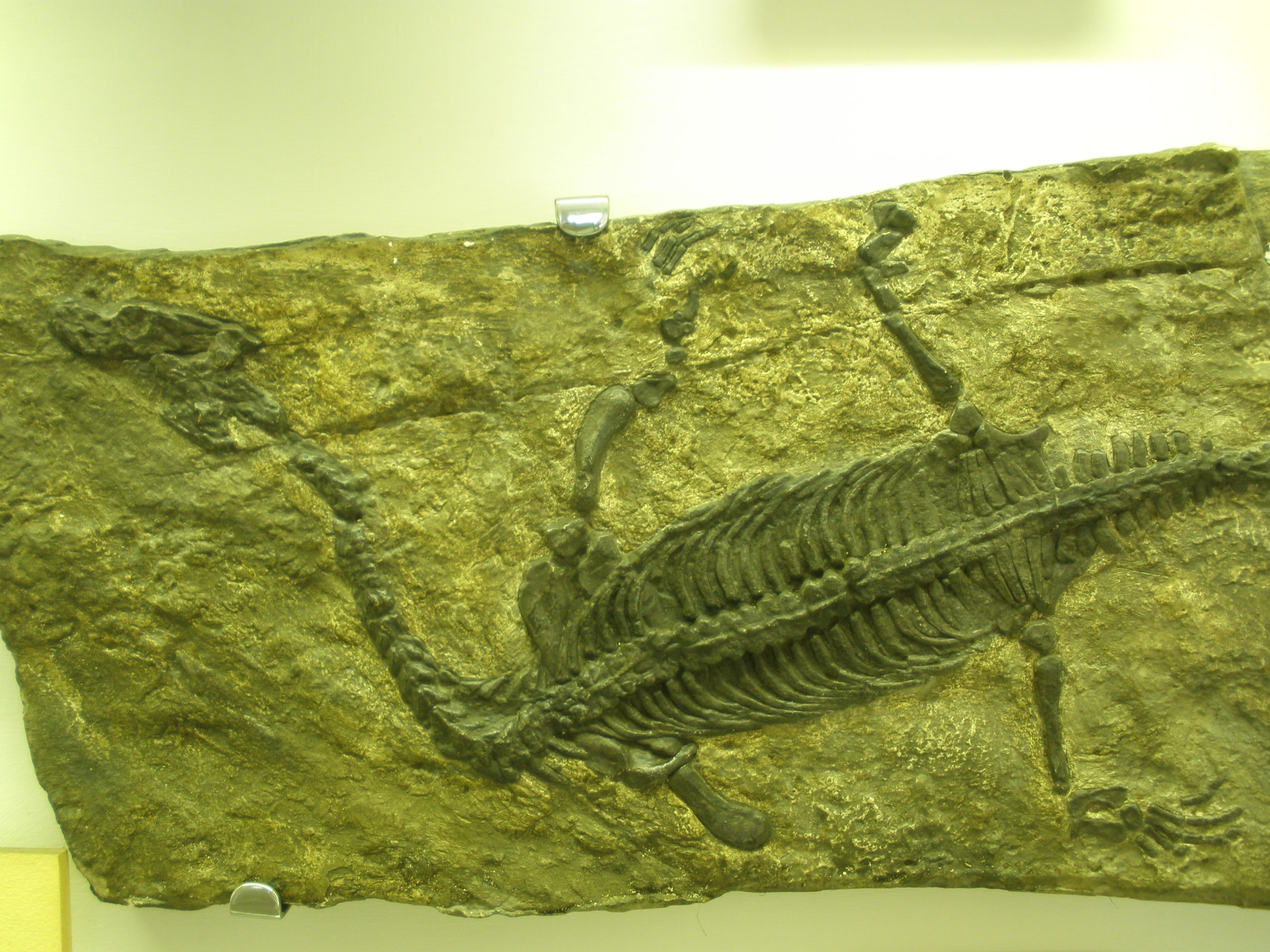 Took the photo at Museo di Storia Naturale di Verona